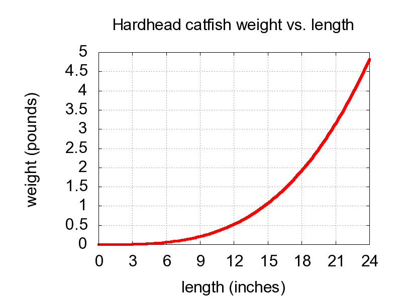 Hardhead catfish length vs. weight graph, english units